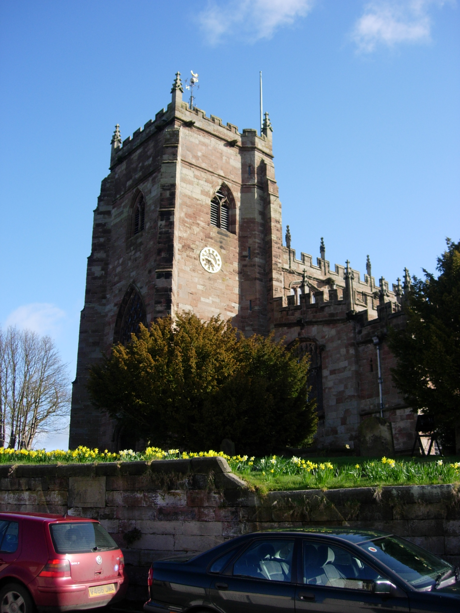 West tower of St Oswald's parish church, Malpas, Cheshire, seen from the south